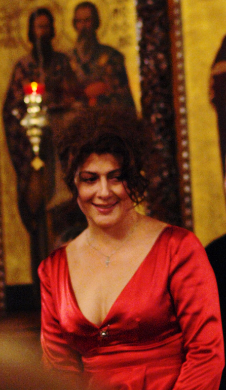 Divna Ljubojevic.